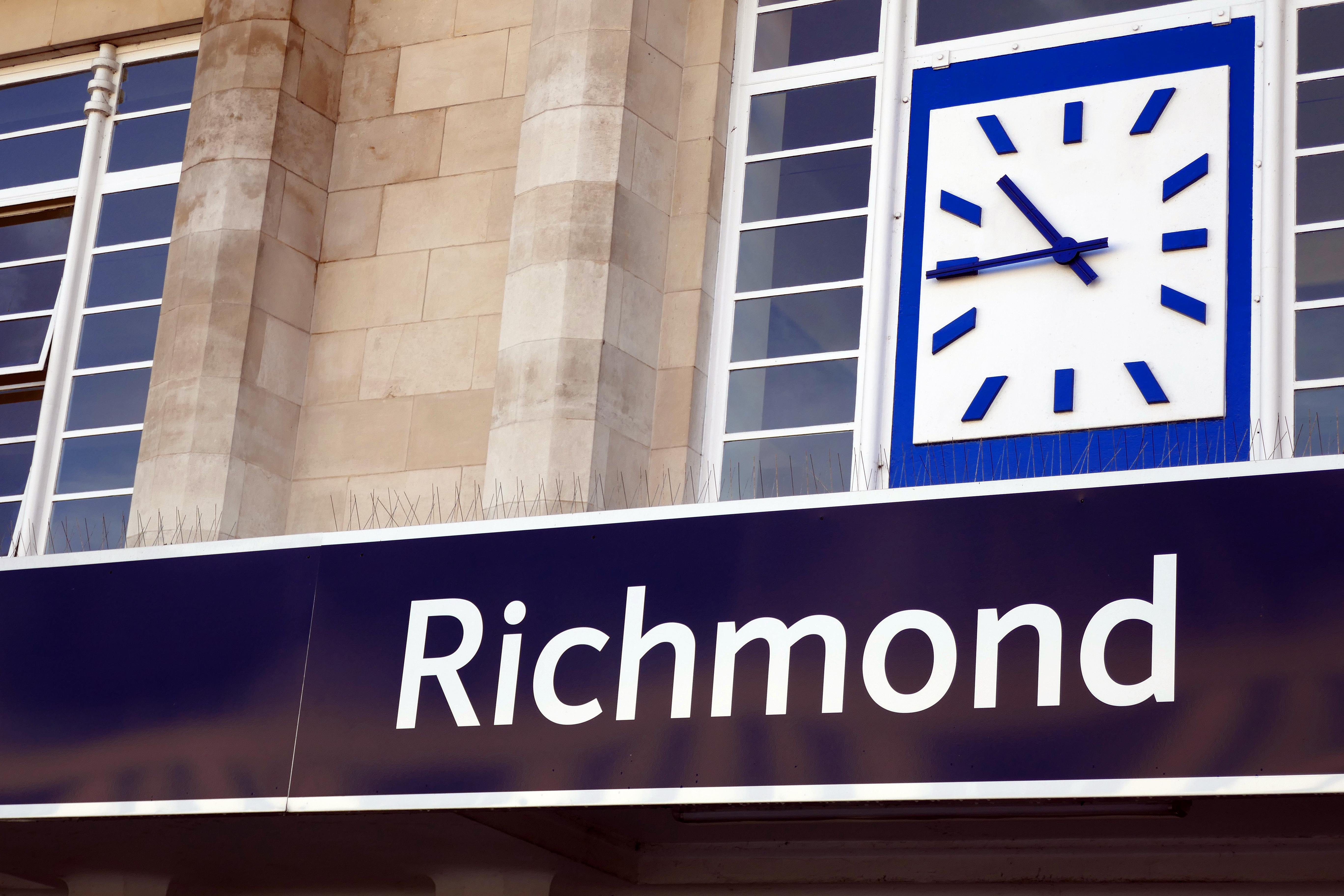 Richmond, also known as Richmond (London), is a National Rail station in Richmond, Greater London on the Waterloo to Reading and North London Lines.